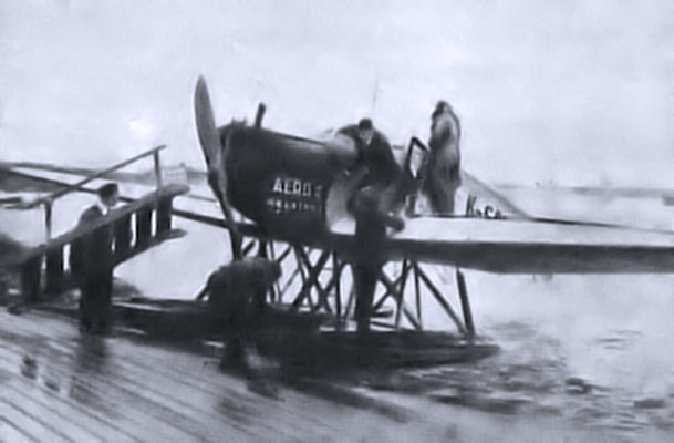 Aero O/Y (now Finnair) Junkers F13 in the 1920s. The pictured aircraft was disappeared on November 16, 1927 over the Bay of Finland.